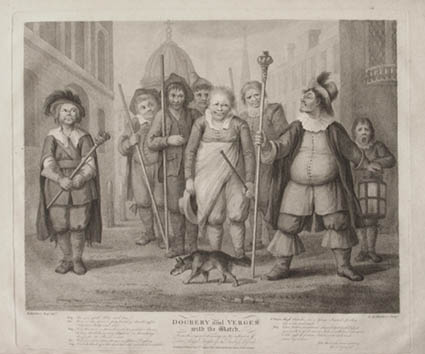 From Shakespear's "Much ado", Dogberry and Verges with the Watch by Robert Mitchell Meadows